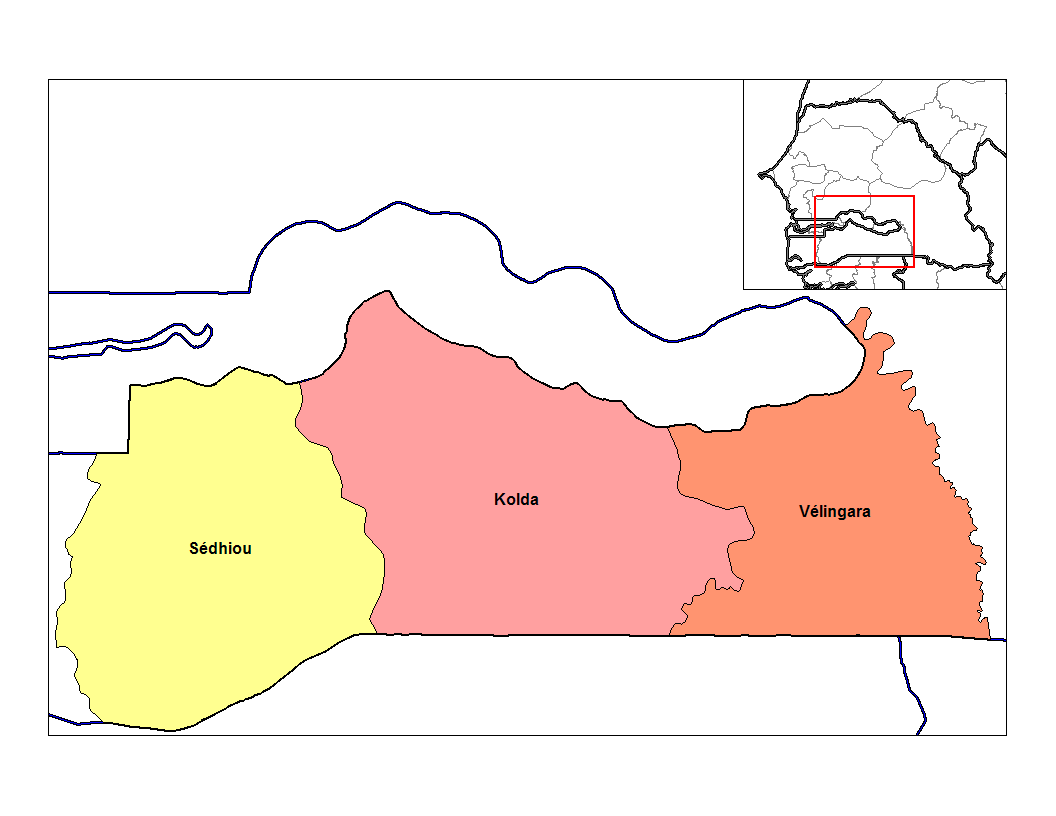 Map of the departments of Kolda region in Senegal. Created by Rarelibra 22:30, 28 December 2006 (UTC) for public domain use, using MapInfo Professional v8.5 and various mapping resources.